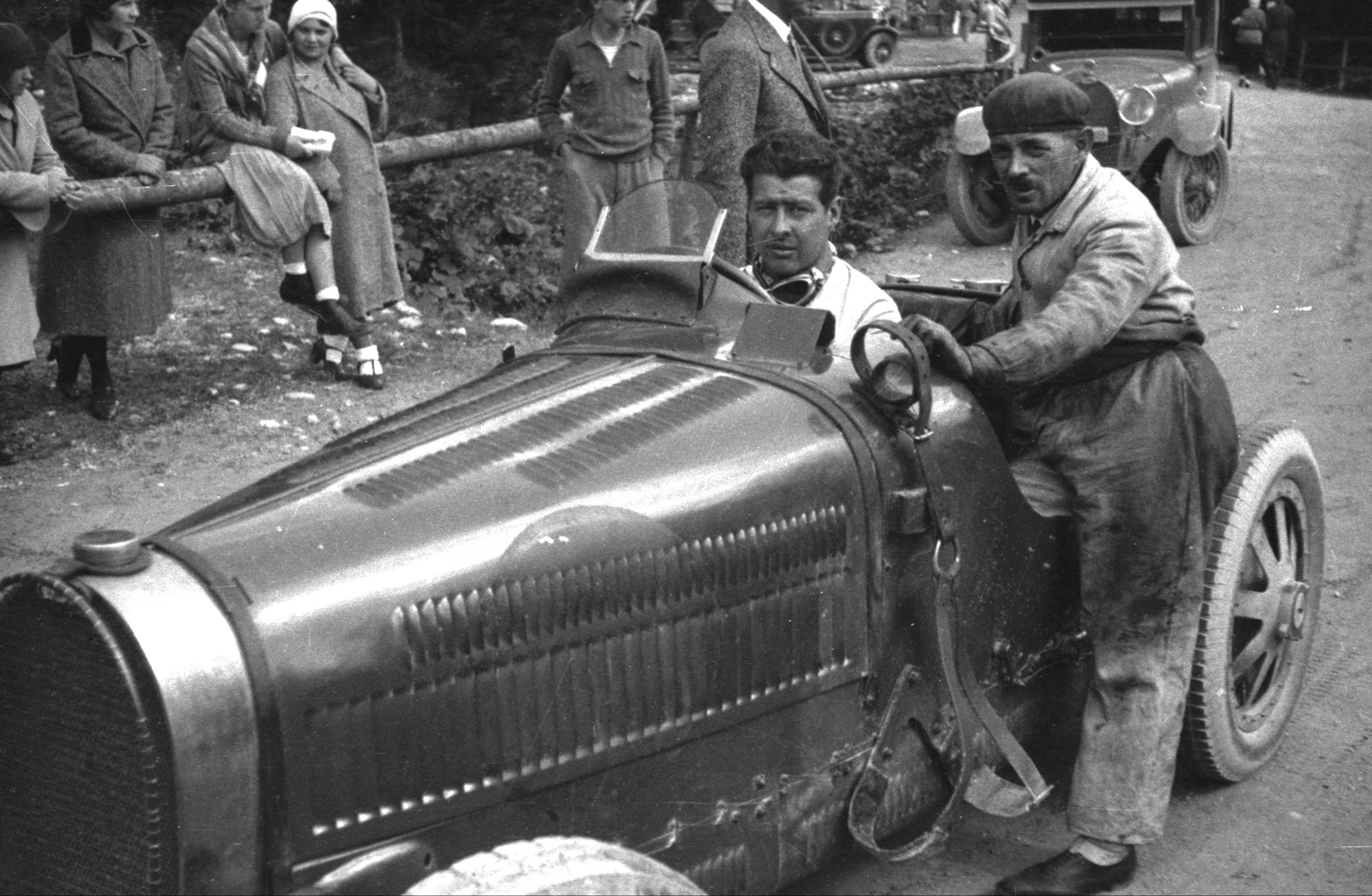 4th International Tatra Rally, Poland, August 1931. Georg von Lobkowitz in his Bugatti (he did not drive this car during the competition however).